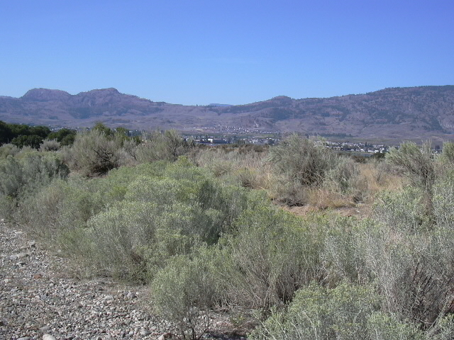 Photograph of the Nk'mip Desert in late summer — in British Columbia. Credits Taken by Hector Olofsson and released into the public domaine. [IMG]